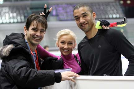 Aliona Savchenko and Robin Szolkowy at the boards with their coach Ingo Steuer at the 2007-2008 Grand Prix Final